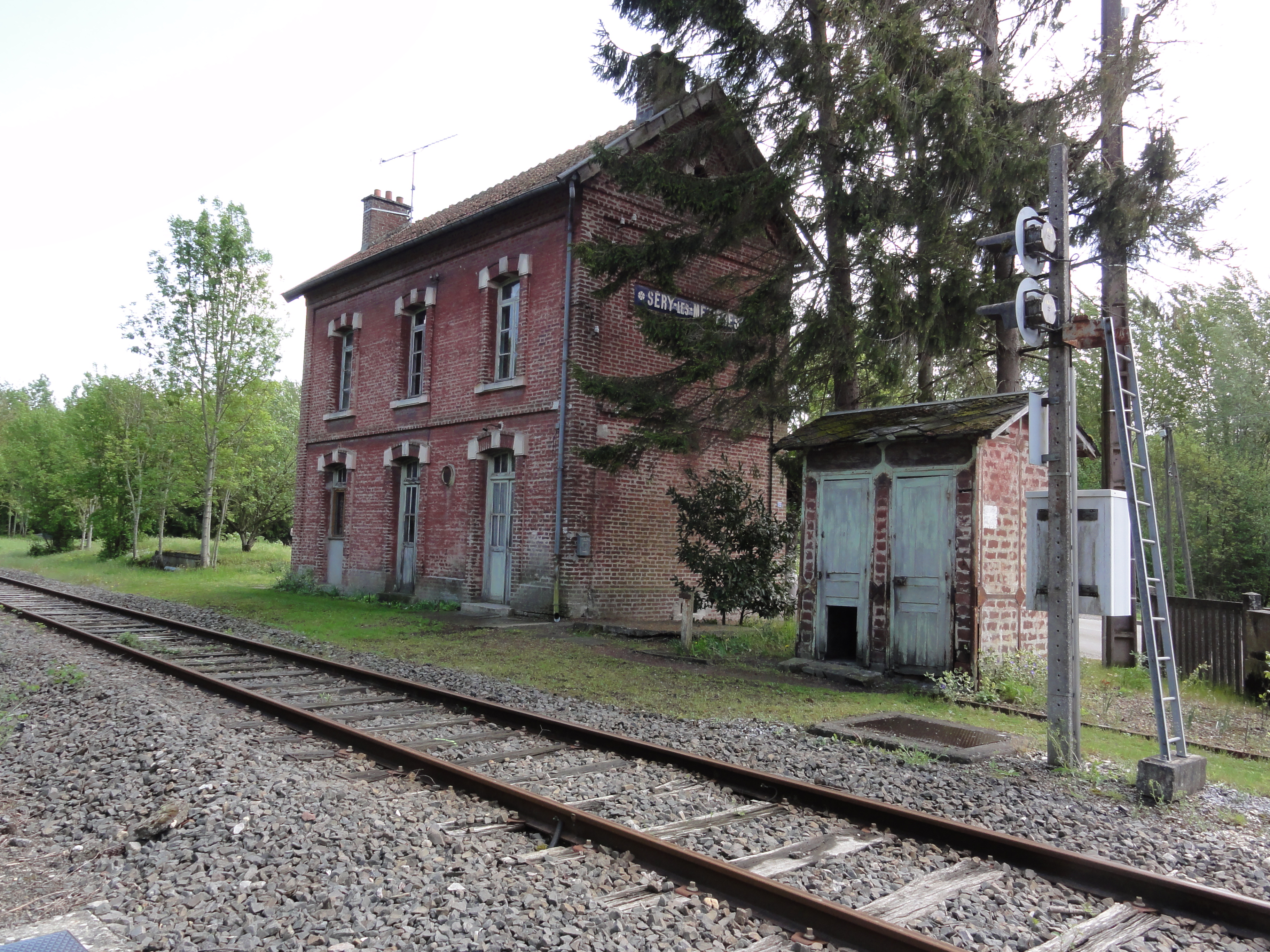 Séry-lès-Mézières (Aisne) ancienne gare